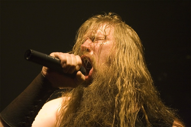 Johan Hegg, the vocalist of the Swedish heavy metal band Amon Amarth performing on July 21, 2009 at the Citibank Hall, São Paulo, Brazil